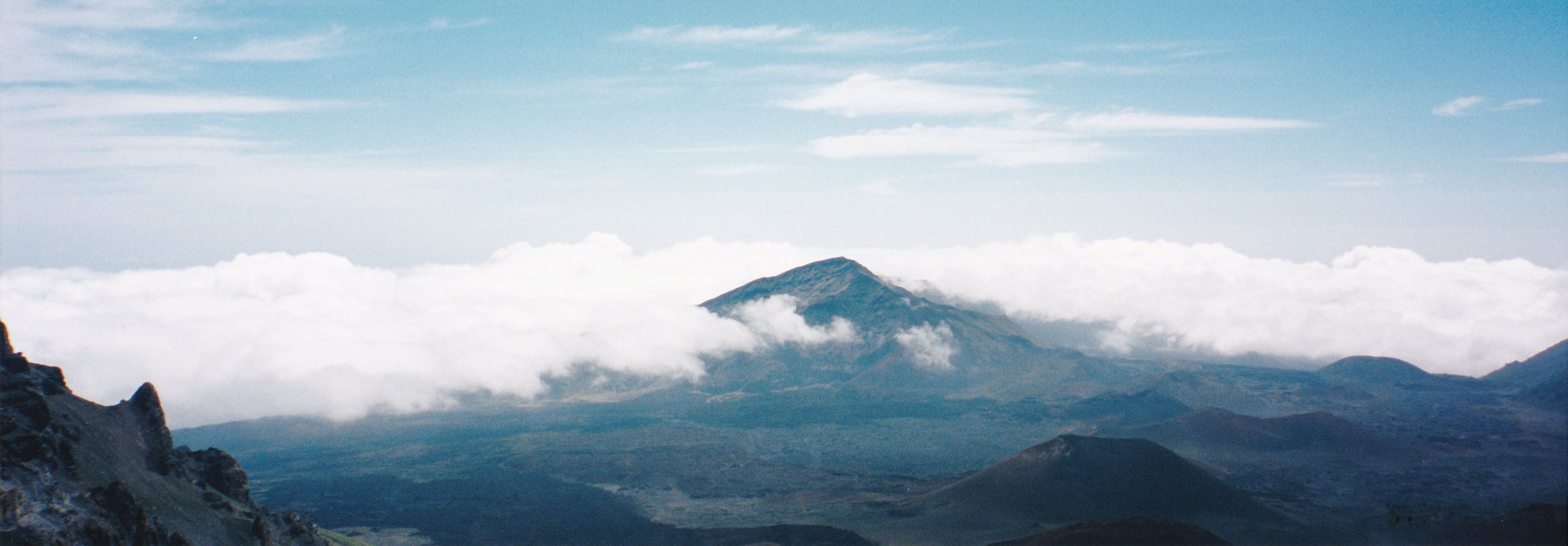 Haleakala mountain panoramic image 04/25/1997